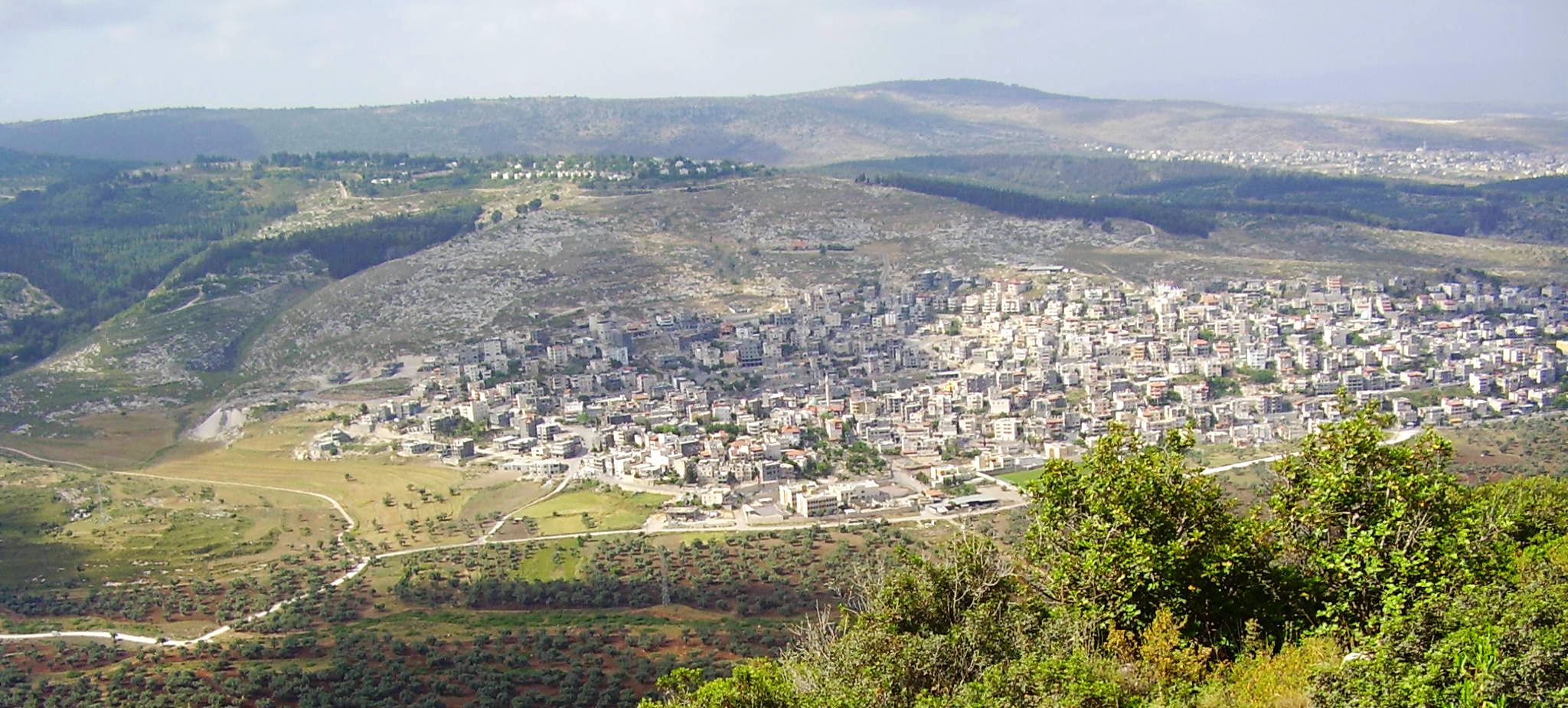 view on the arab village sha\'ab from tzorit in lower galilee near carmiel